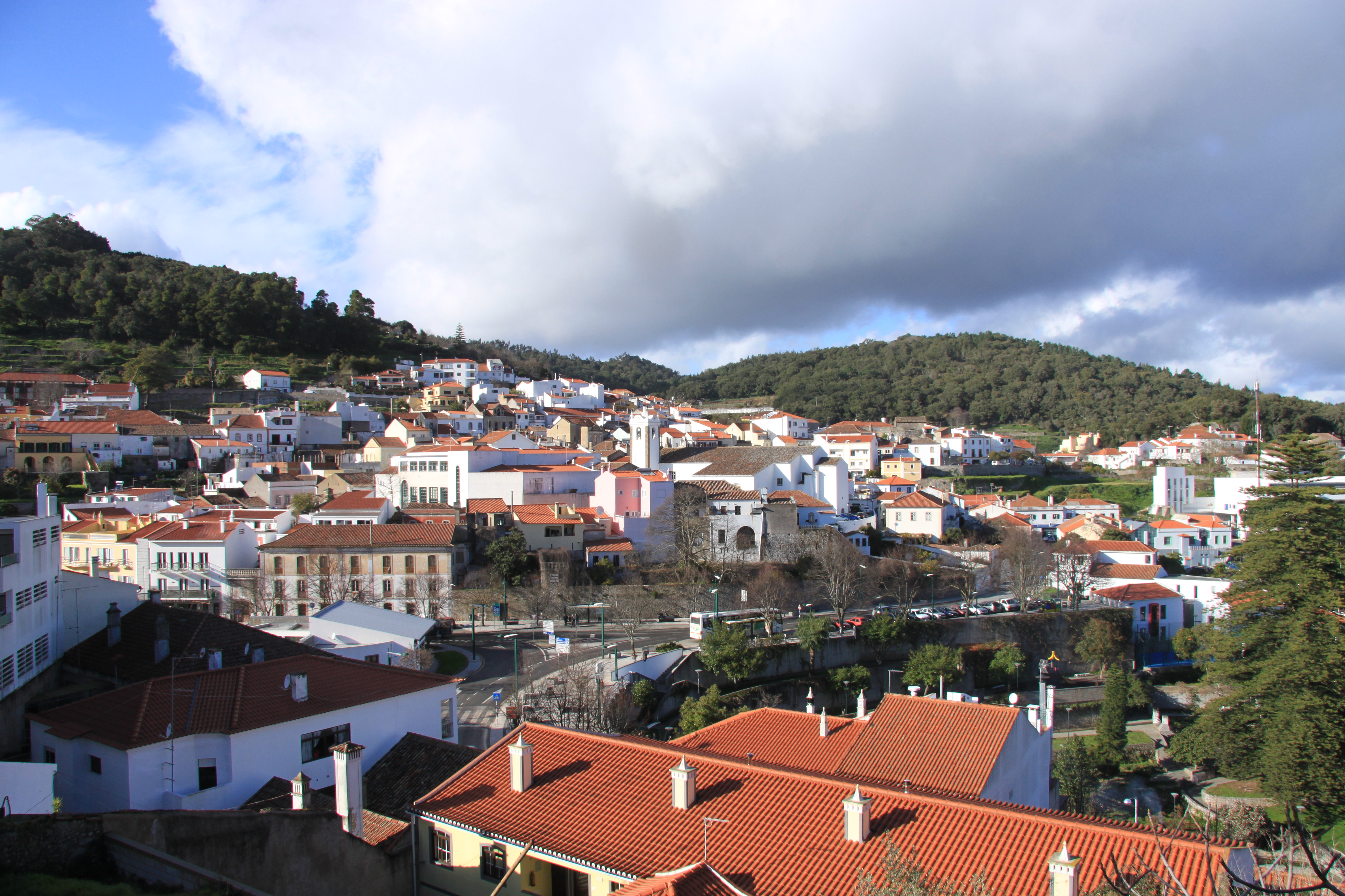 A vista of the town of Monchique, Algarve, Portugal. From a viewpoint above the underground car park on the Rua Engenheiro Duarte Pacheco